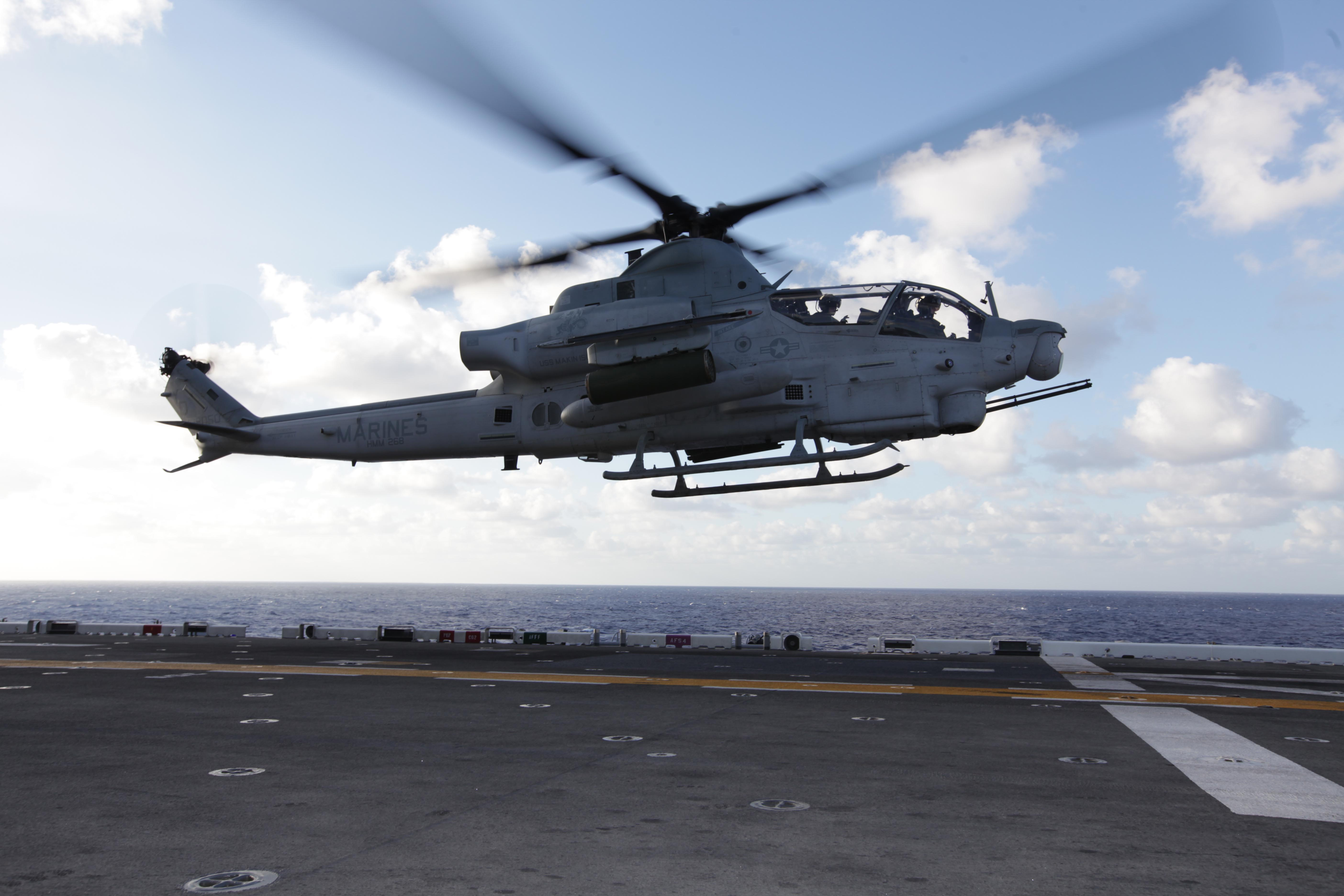 Majs. Travis Patterson and Don McGuire, AH-1Z Super Cobra pilots, land on USS Makin Island here Nov. 14. The Marines serve with Marine Medium Helicopter Squadron 268 (Reinforced), the aviation combat element for the 11th Marine Expeditionary Unit, which embarked USS Makin Island, USS New Orleans and USS Pearl Harbor in San Diego Nov. 14, beginning a seven-month deployment to the Western Pacific and Middle East regions.